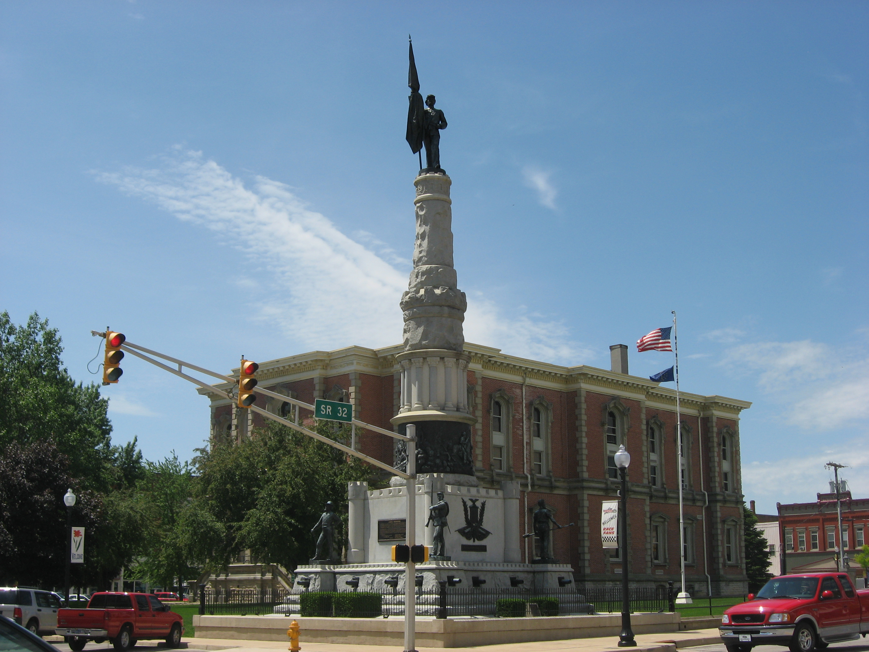 Northern side and eastern front of the Randolph County Courthouse, built in 1875 on Courthouse Square at the center of Winchester, Indiana, United States. In the foreground is a Civil War memorial built in 1890. The courthouse and statue, along with the surrounding business buildings, are part of the Winchester Courthouse Square Historic District, a historic district that is listed on the National Register of Historic Places.